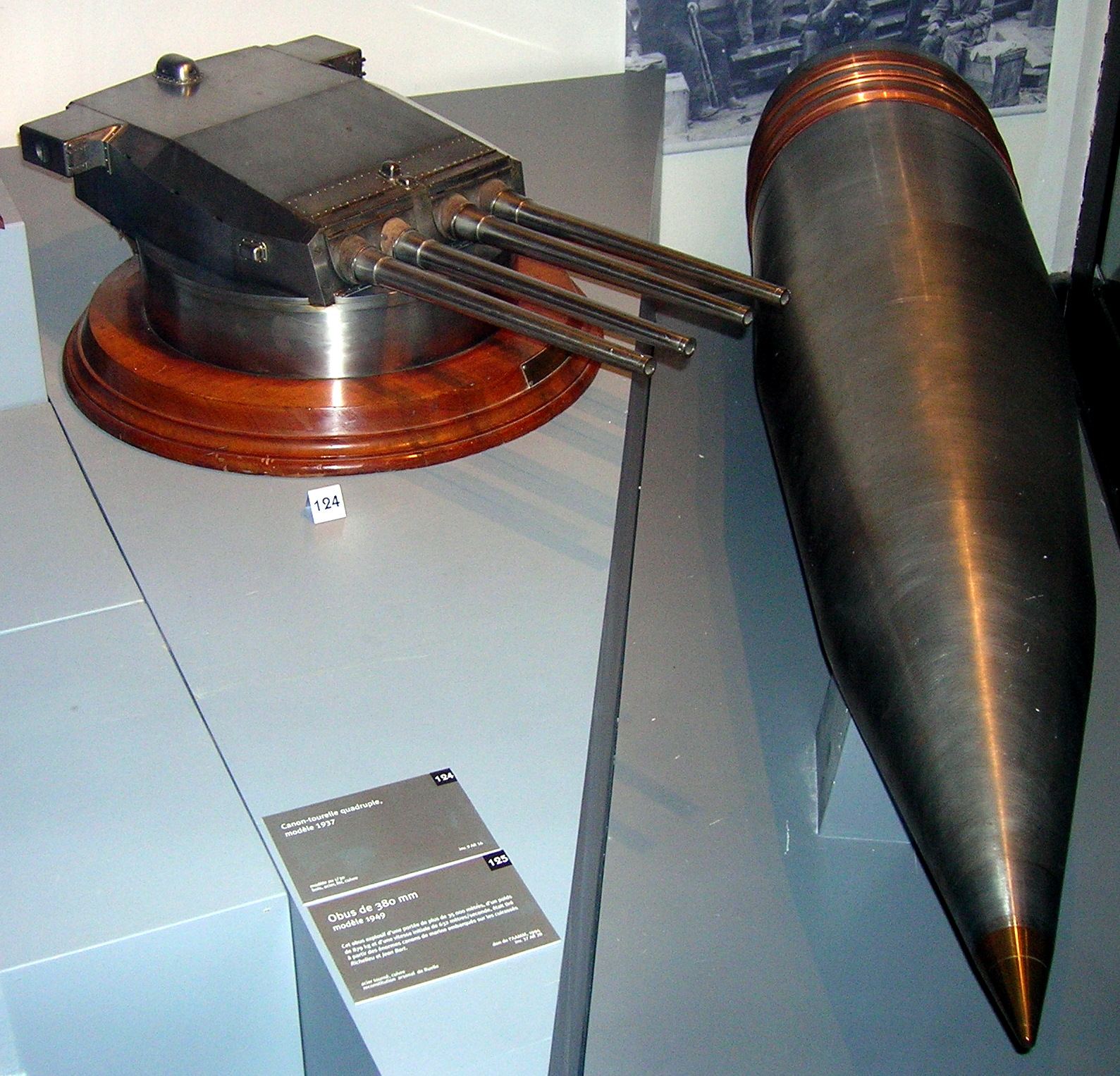 Model of a 380mm/45 Modèle 1935 gun turret, and vintage 380 mm shell.